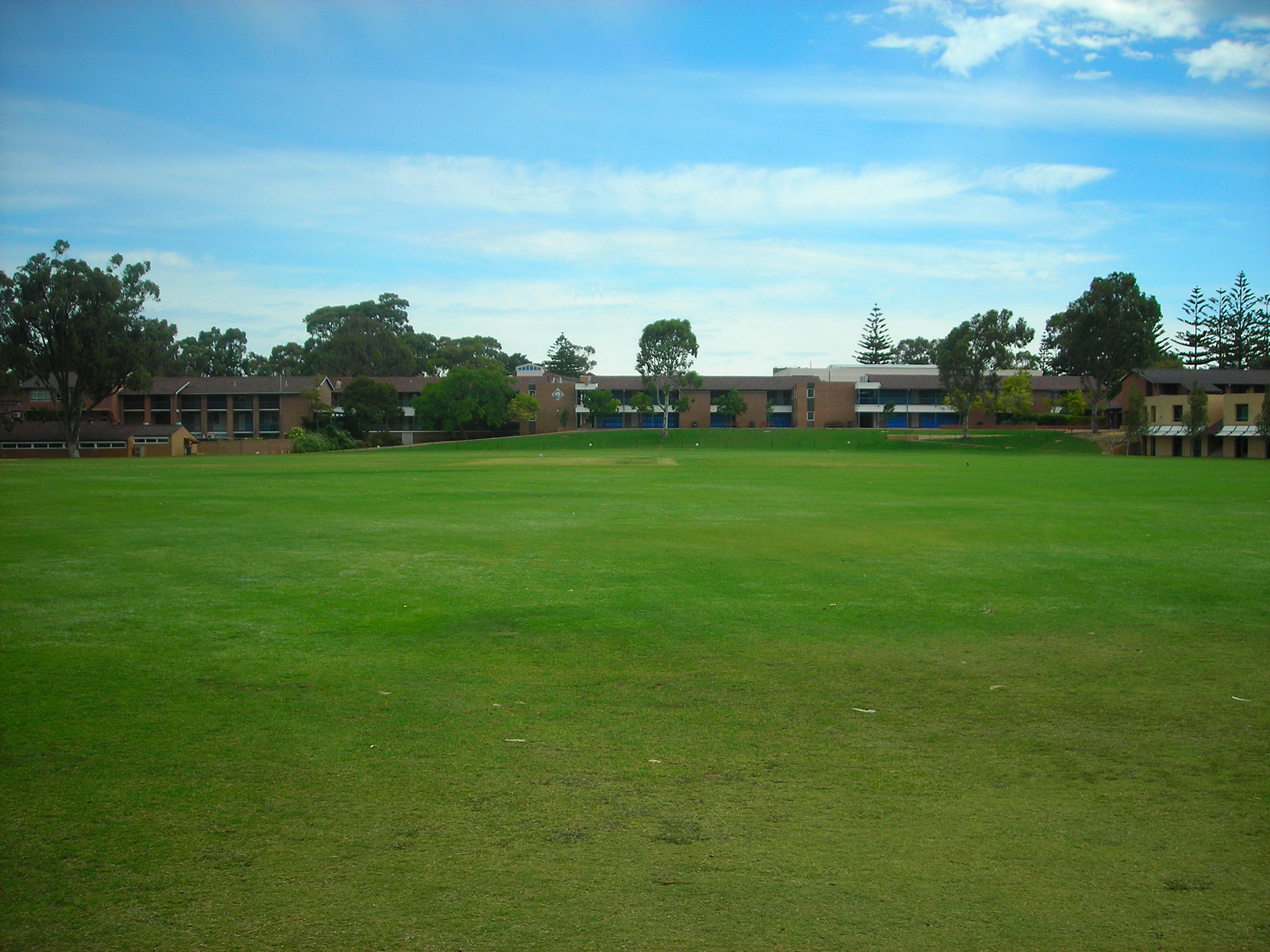 Picture I took at Hale School, Perth of the Craig Oval. The school buildings can be seen in the background Music and Drama centre on the right